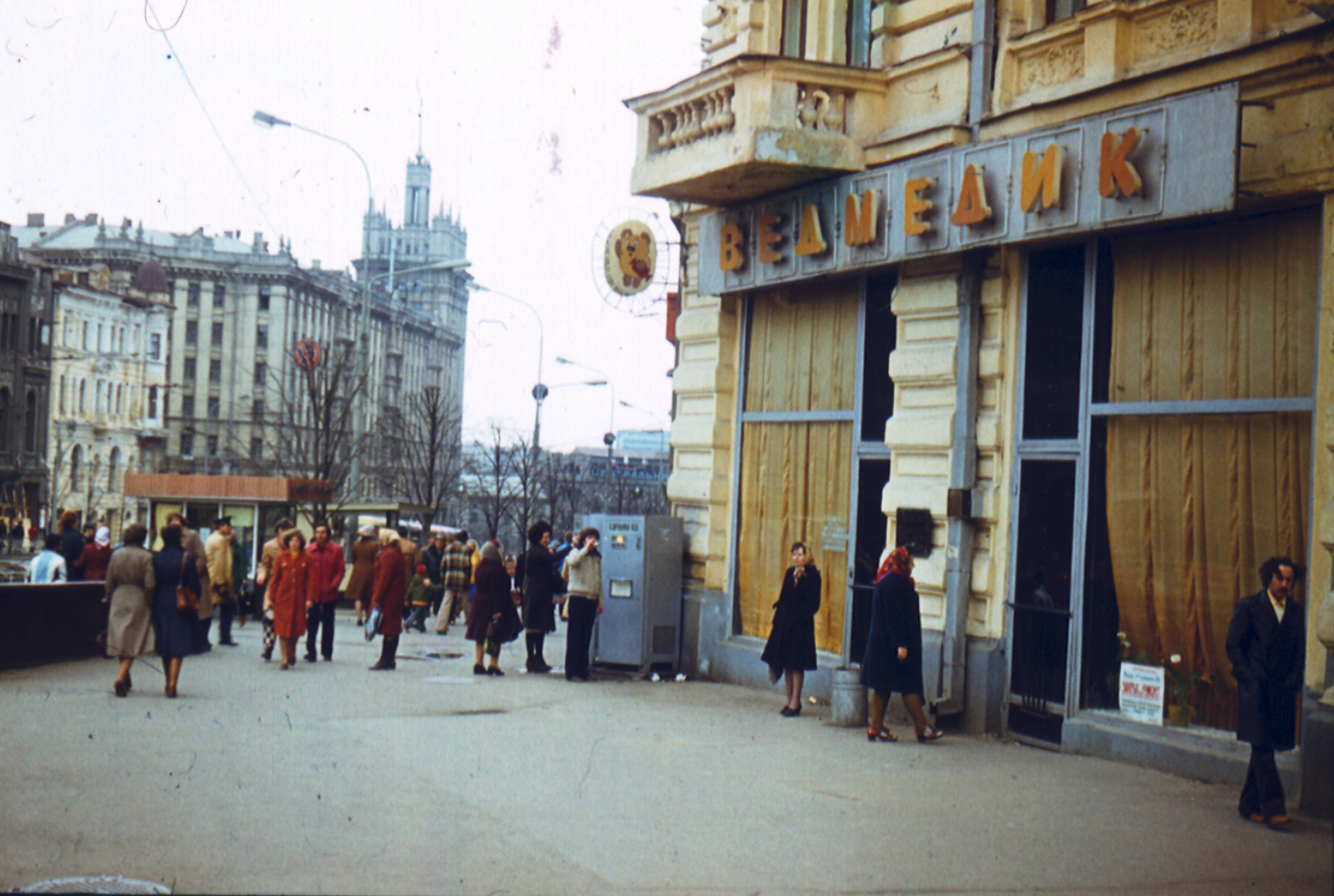 Famous Vedmedik shop on Tevelev Square in Kharkov, USSR, circa 1980-1981.